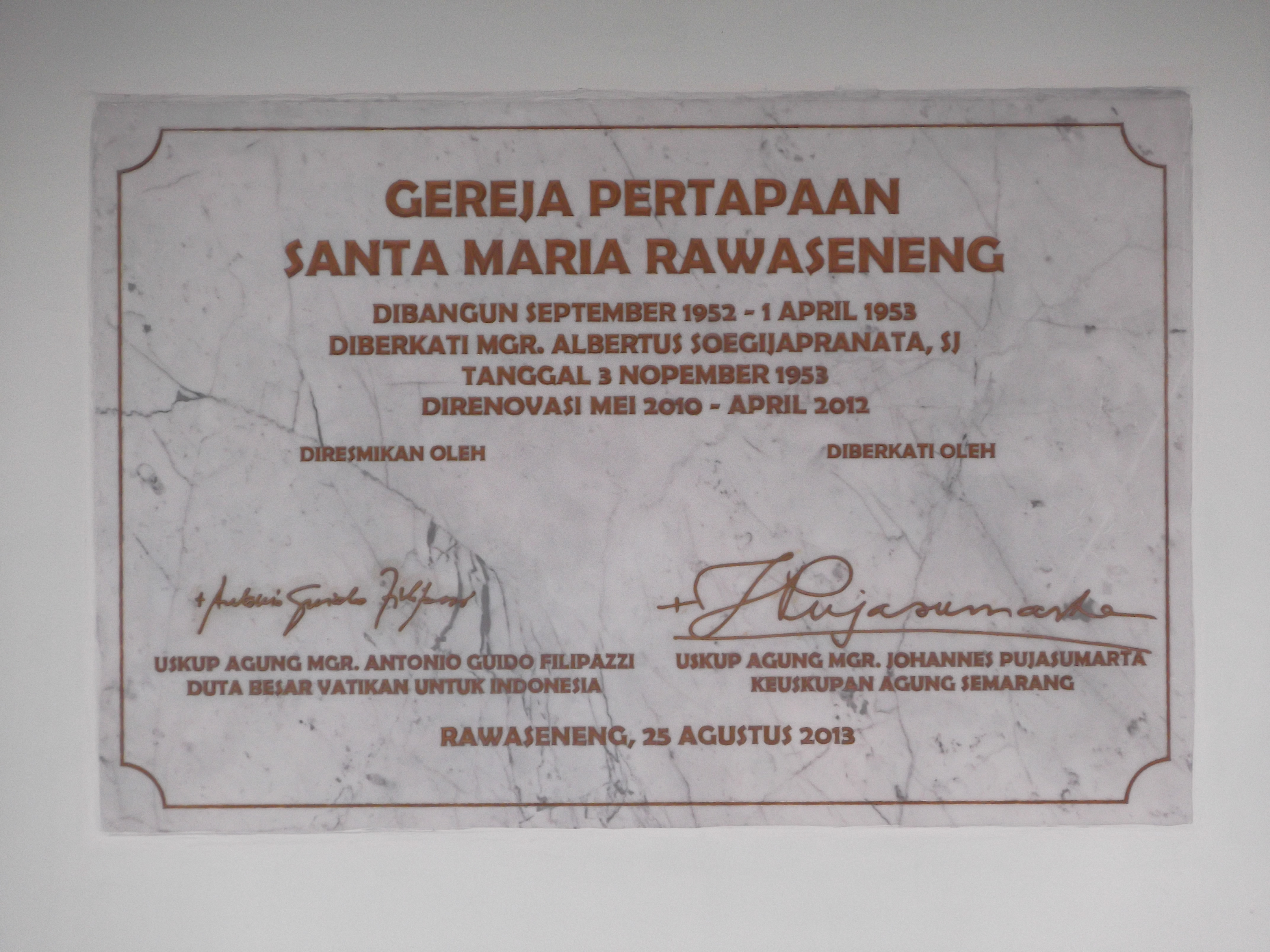 Inscription on the Church of Monastery of Saint Mary Rawaseneng, Temanggung, Indonesia. Consecrated by Mgr. Albertus Soegijapranata, SJ on 3 November 1953. The renovation of the building was inaugurated by Mgr. Antonio Guido Filipazzi and consecrated by Mgr. Johannes Pujasumarta on 25 August 2013.